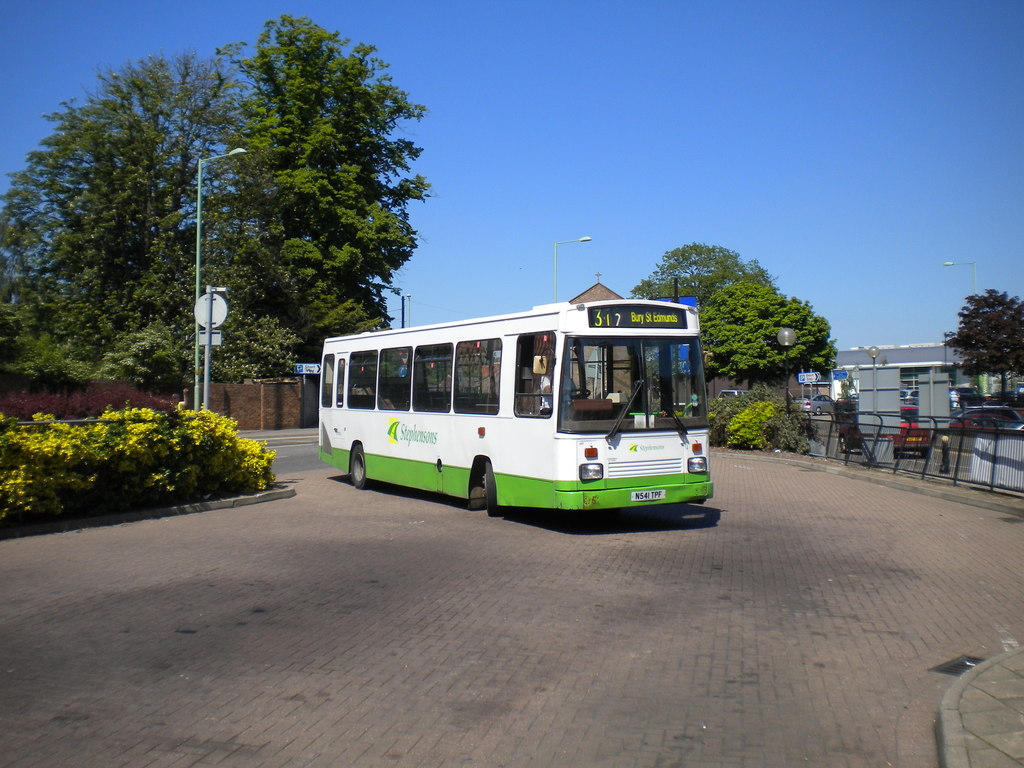 Bus reversing out of Newmarket bus station. The 312 to Bury St Edmunds reverses (with the aid of a banksman, hidden behind the bus in this shot) out of Newmarket Guineas bus station onto Fred Archer Way. Usually, buses are able to leave the bus station forwards, but when this... more